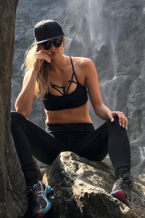 Genevieve Morton resting after Mountain climbing